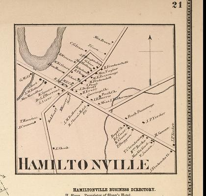 Inset of the hamlet of Hamilton (today Guilderland) in the town of Guilderland